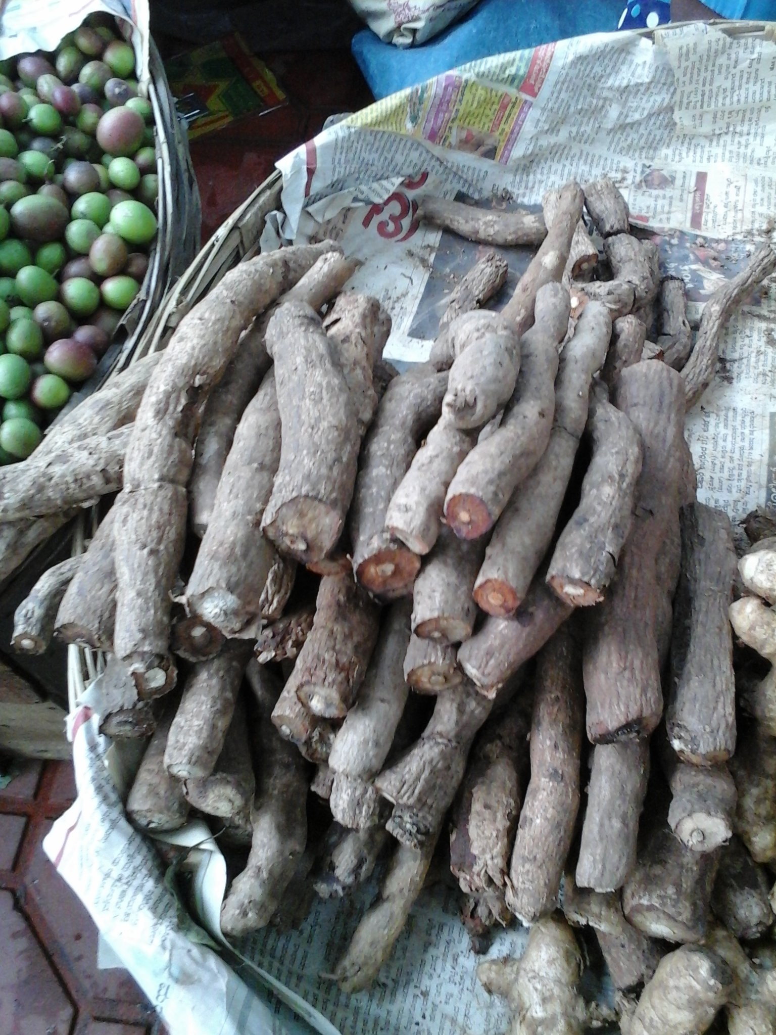 nannari root sold roadside at bangalore